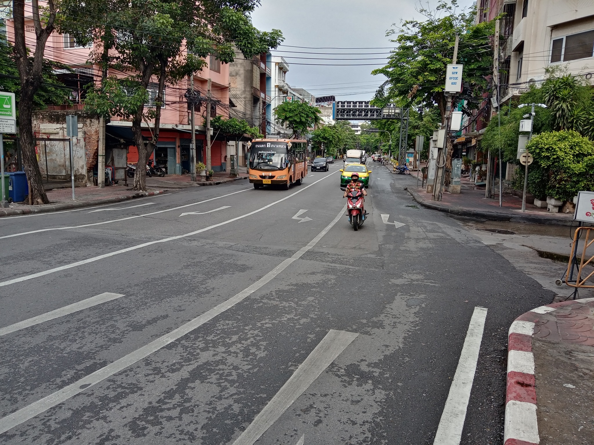 Khao Lam Rd., Talat Noi, Samphanthawong, BKK.